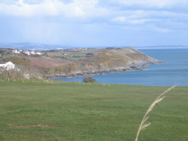 Towards Rams Tor Cliffs on the east side of Langland Bay from Langland Bay Golf course.